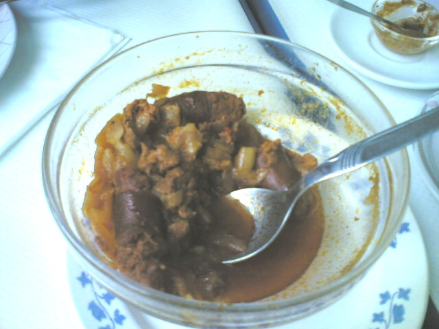 Chouriço (portuguese sausage) from Goa.